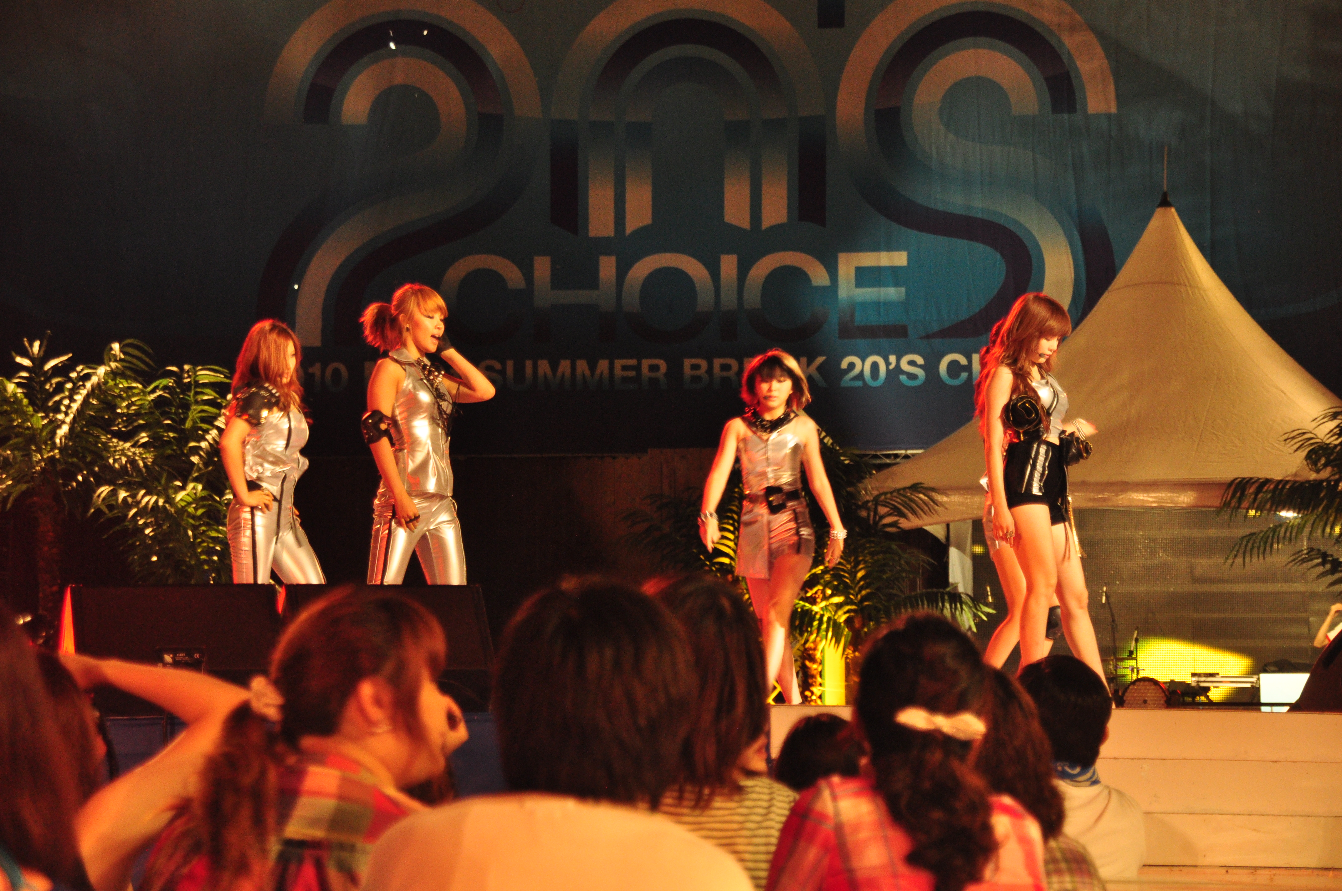 4 Minute in Mnet 20's Choice Awards, 2010